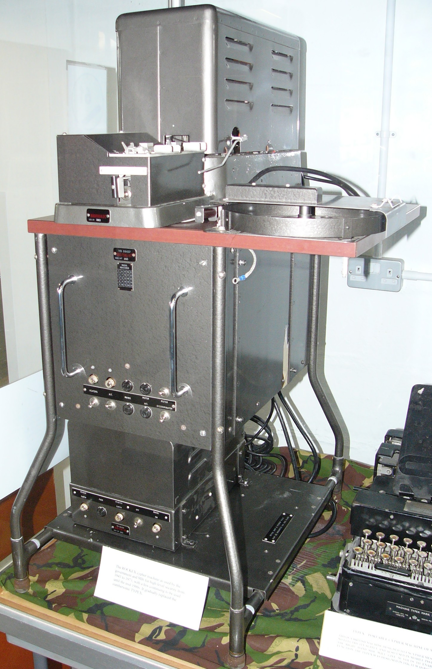 Rockex equipment on display at Bletchley Park, provided courtesy of David White